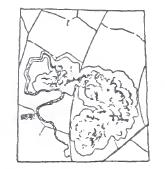 Ectoedemia nyssaefoliella